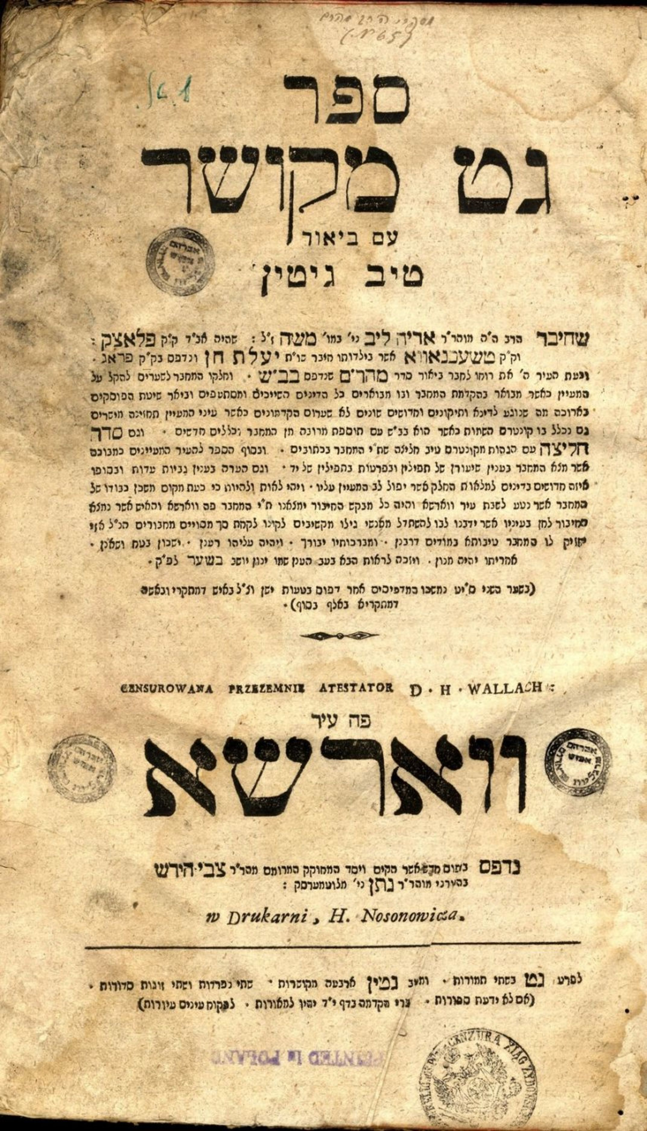 Get Mekushar with Tiv Gittin. Order of the Get and Chalitza with elucidation by Rabbi Aryeh Leib Zinz, Rabbi of Plotzk. Warsaw, [1815]. First edition. 89 [1], 10 leaves. 34.5 cm. Published by the author, Mahara"l Zinz. The flyleaf features an old, handwritten story, 'Ma'ase Rokeich', in which the "Ba'al HaRokeich" visits his disciple in a dream. Light tear with loss. Owner stamps, including one from Avraham Abish Margoliot of Radum, possibly author of the "Tzilusa D'Avraham". LOT 466 in auction. 25.2.15 , 3 Shatner Center 1st Floor Givat Shaul Jerusalem